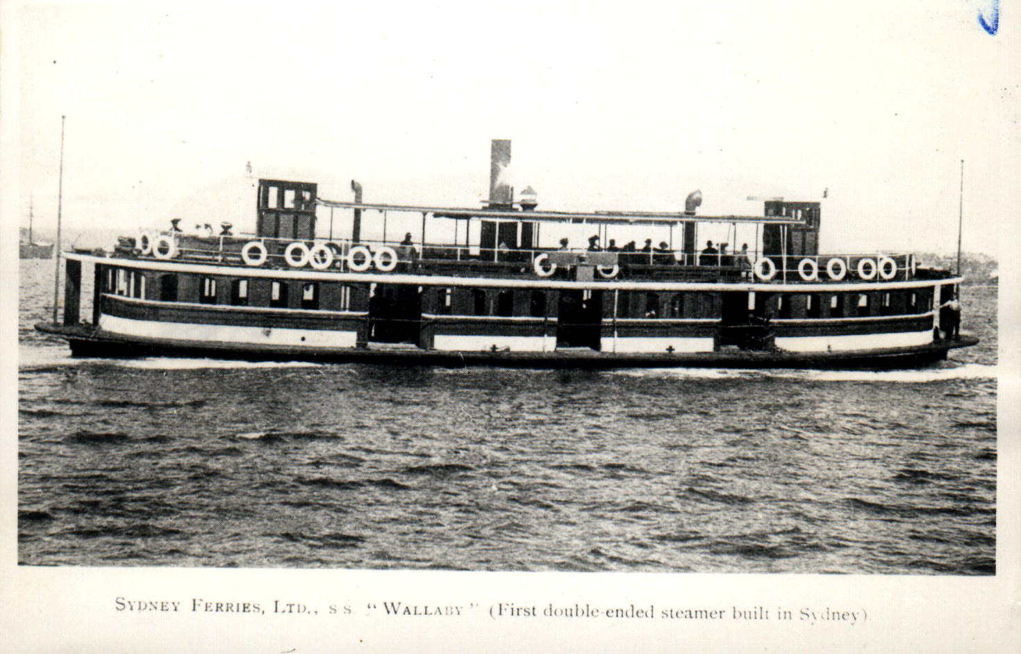 Sydney Ferry Wallaby, Sydney's first double-ended screw ferry. Built 1879 and converted to a tug 1918, broken up 1926. Shown here after her wheelhouses were closed in.